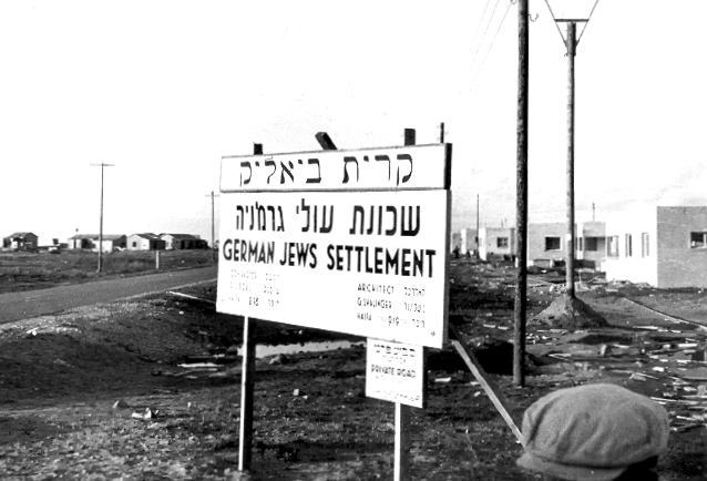 A sign identifying Kiryat Bialik, a German Jewish settlement north of Haifa.